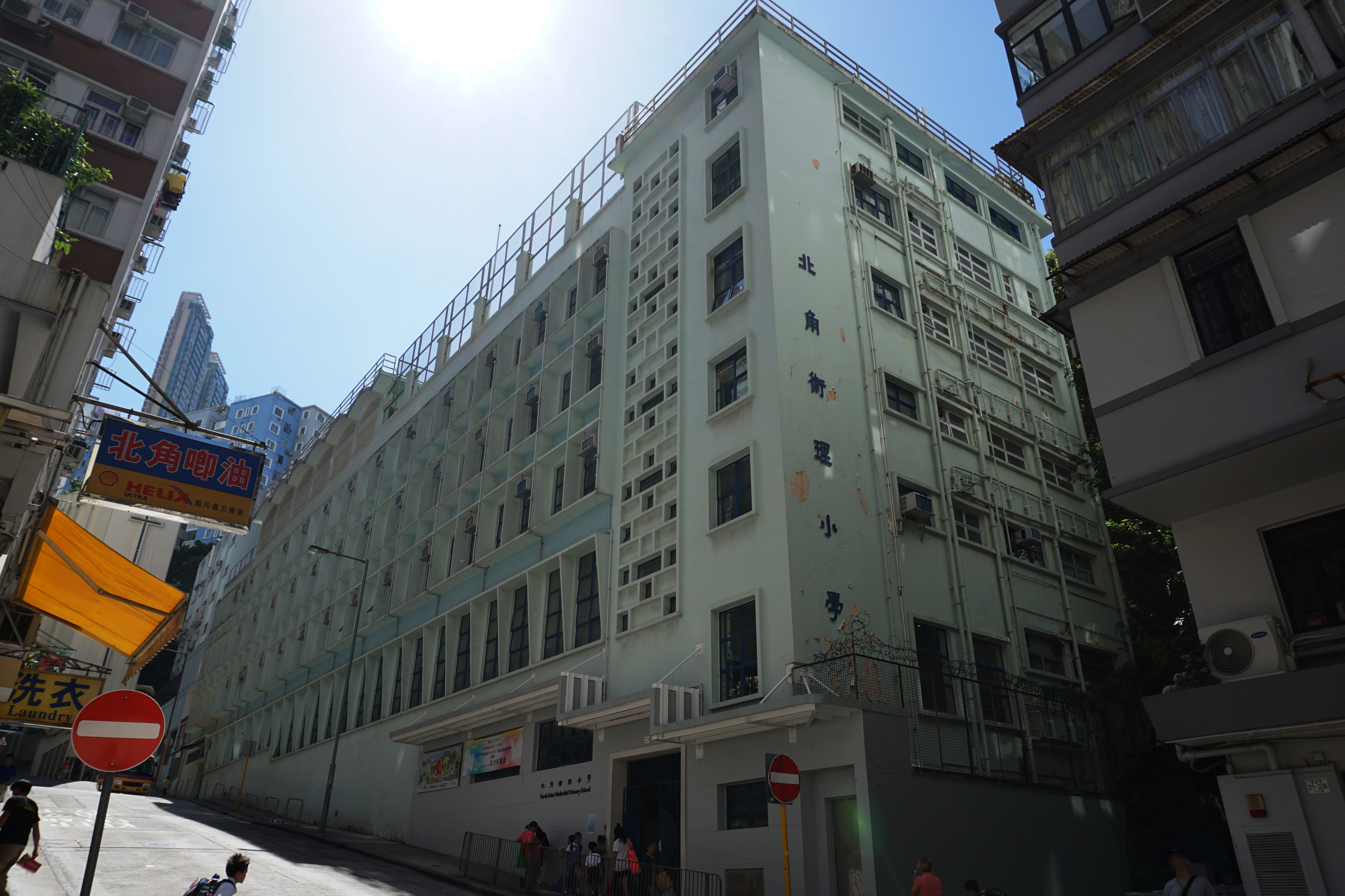 North Point Methodist Primary School in Fortress Hill, Hong Kong.